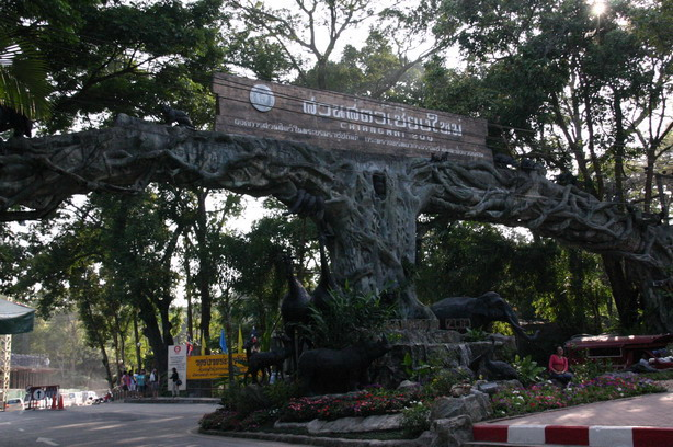 Chiangmai Zoo Entrance